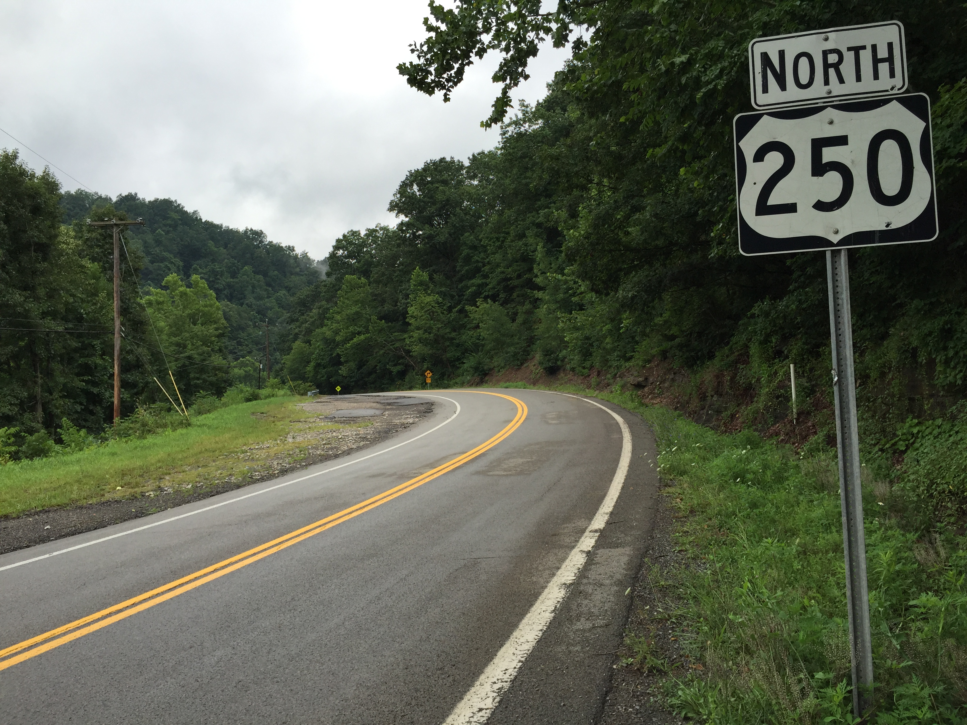 View north along U.S. Route 250 (Hornet Highway) at Oak Street in Hundred, Wetzel County, West Virginia